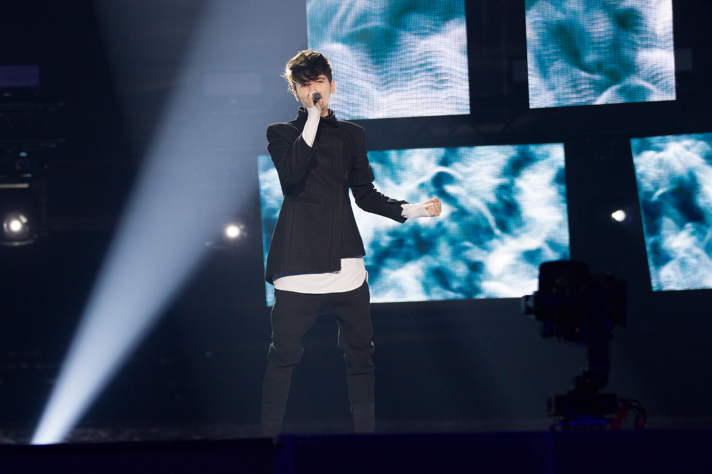 Kristian Kostov representing Bulgaria with the song "Beautiful Mess" during a rehearsal before the grand final of the Eurovision Song Contest 2017 in Kyiv.